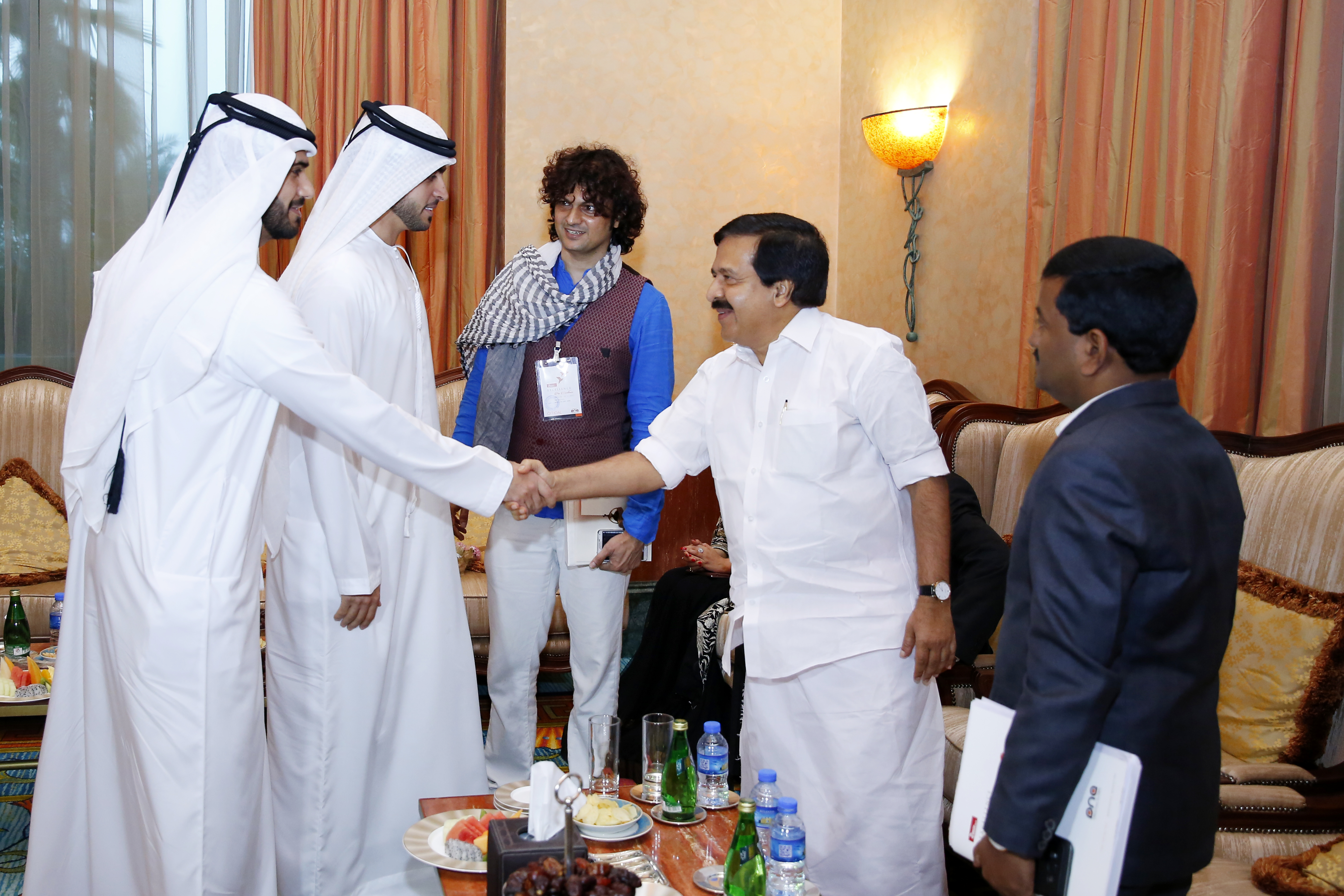 Hon: Home Minister Ramesh Chennithala in Atlantis the Palm